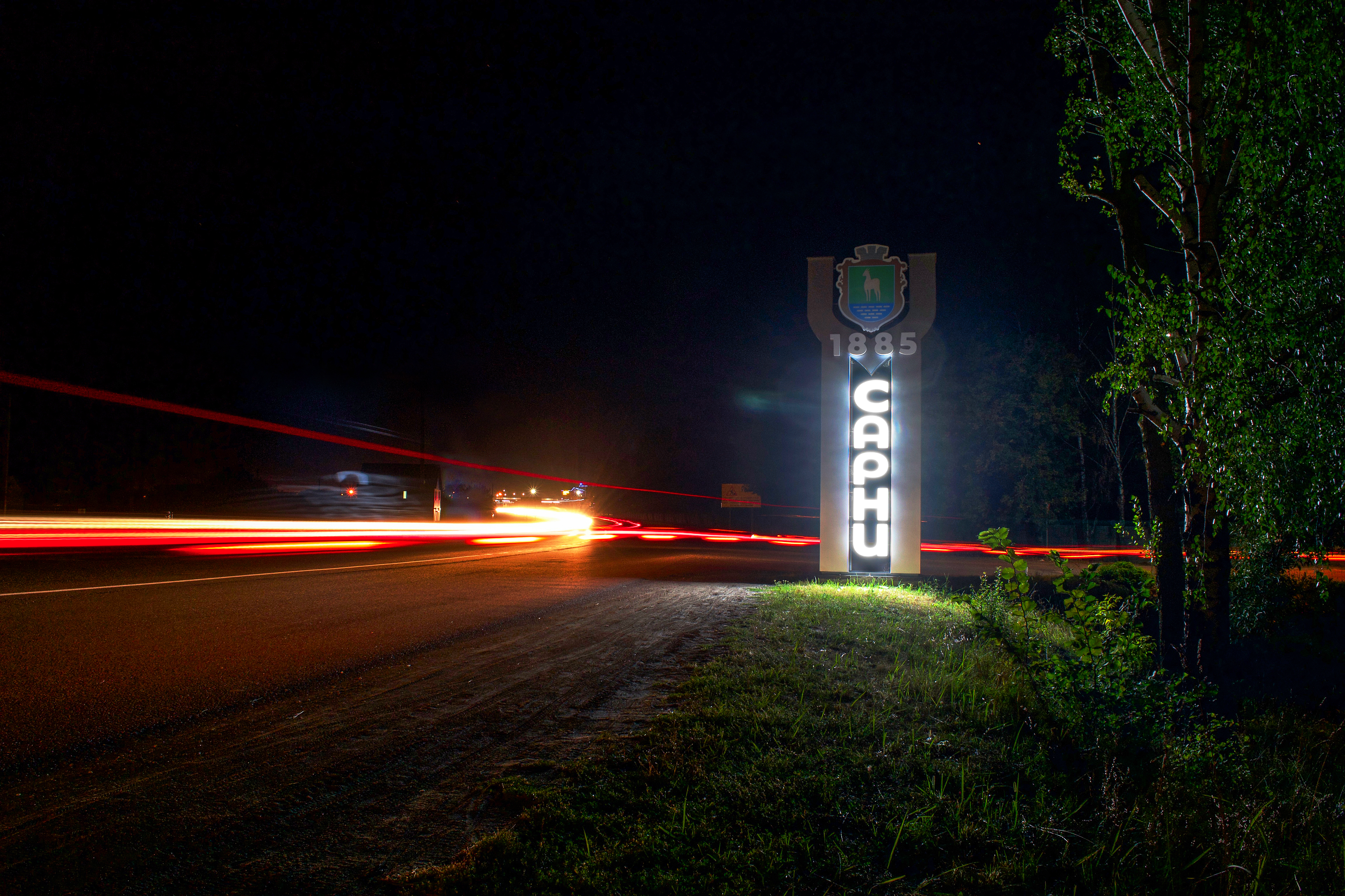 Entrance to the city Sarny, Rivne region, Ukraine